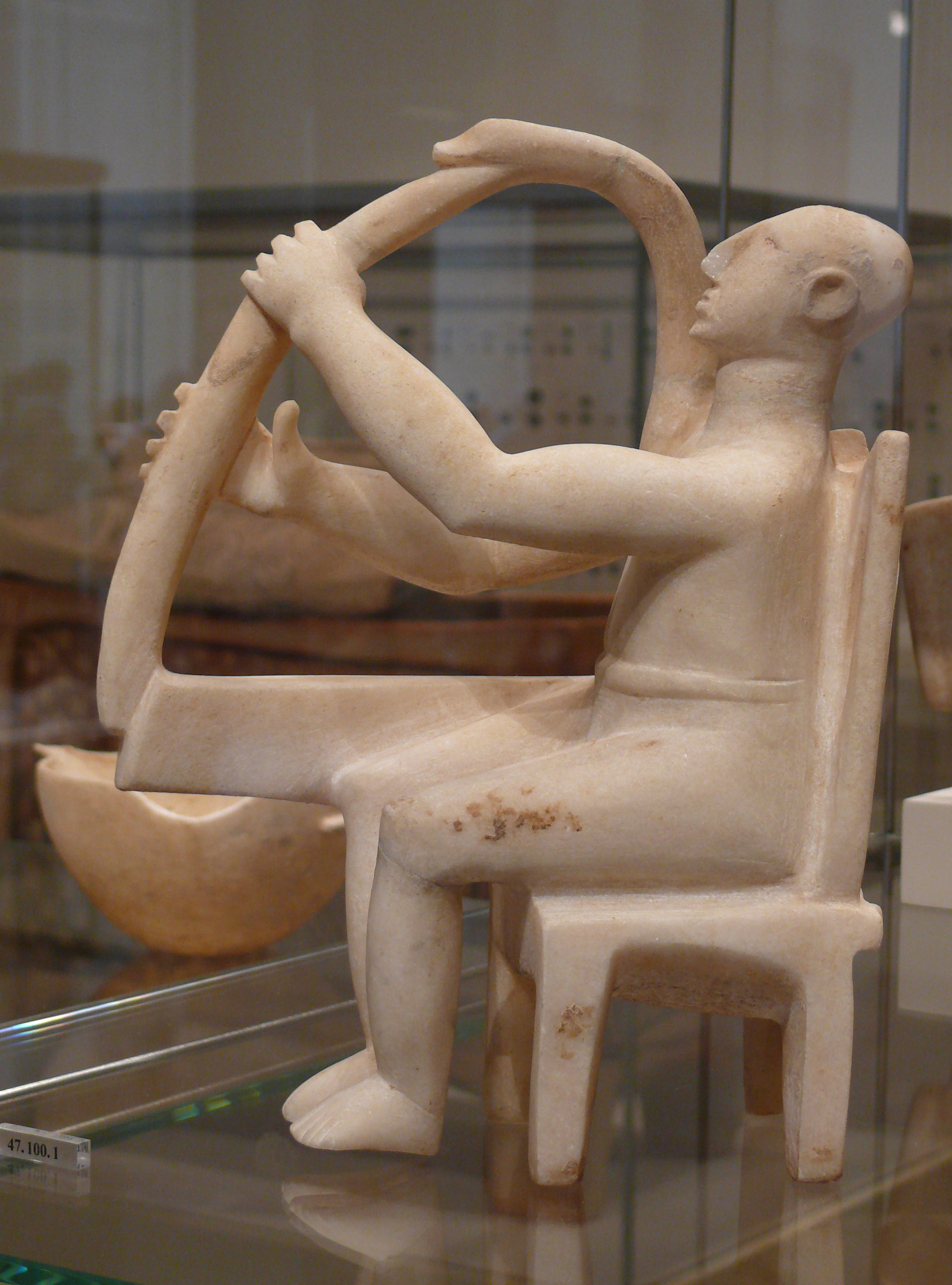 Marble seated harp player in the Metropolitan Museum of Art, New York, NY. Late early Cycladic I-Early Cycladic II, ca. 2800-2700 BC. Rogers Fund 1947 Accession number: 47:100:1